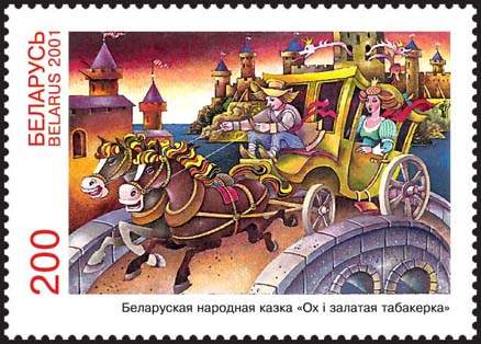 Stamp of Belarus